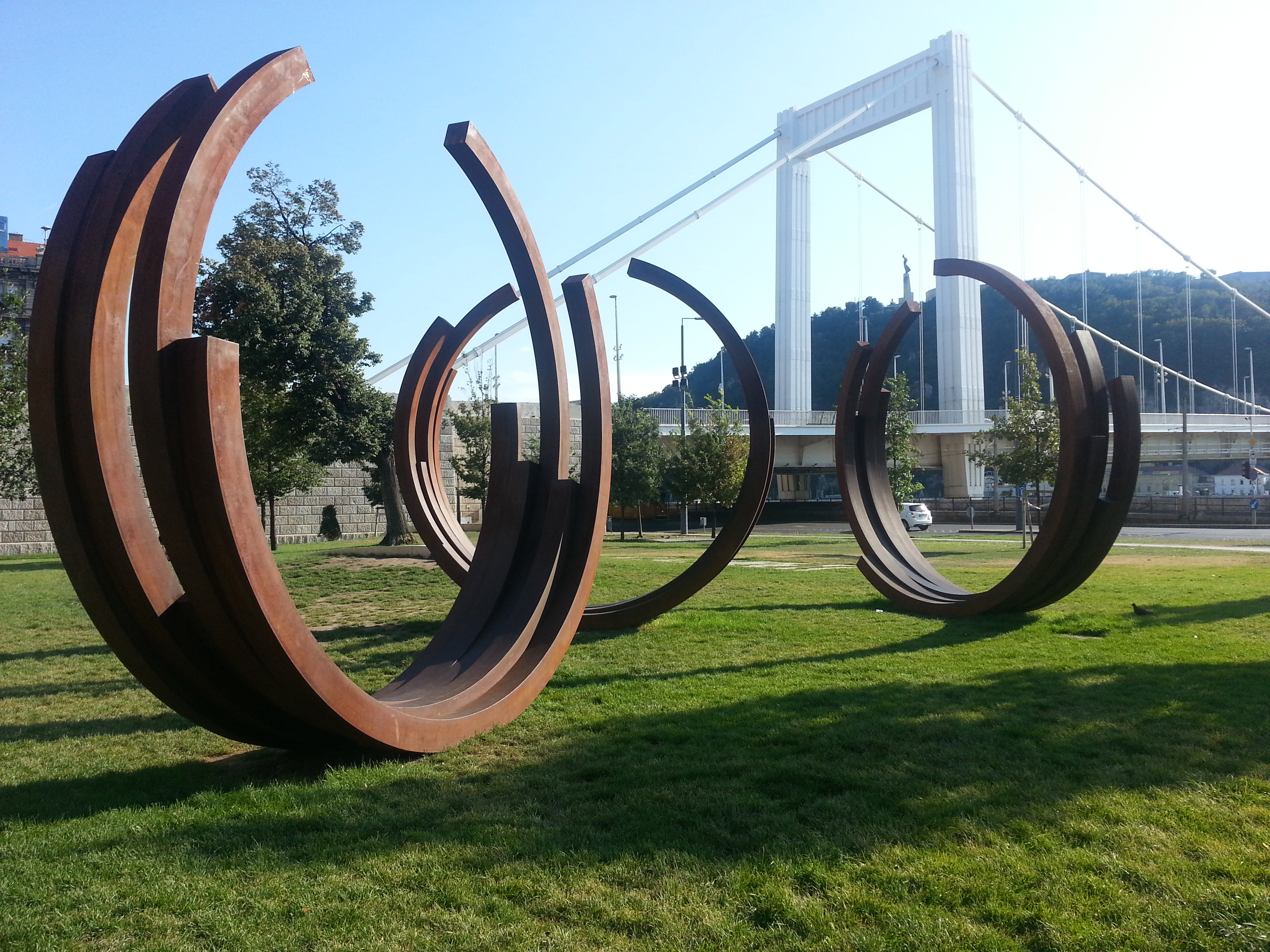 March 15 Square in Budapest (Pest side) with the Elisabeth Bridge in the background.